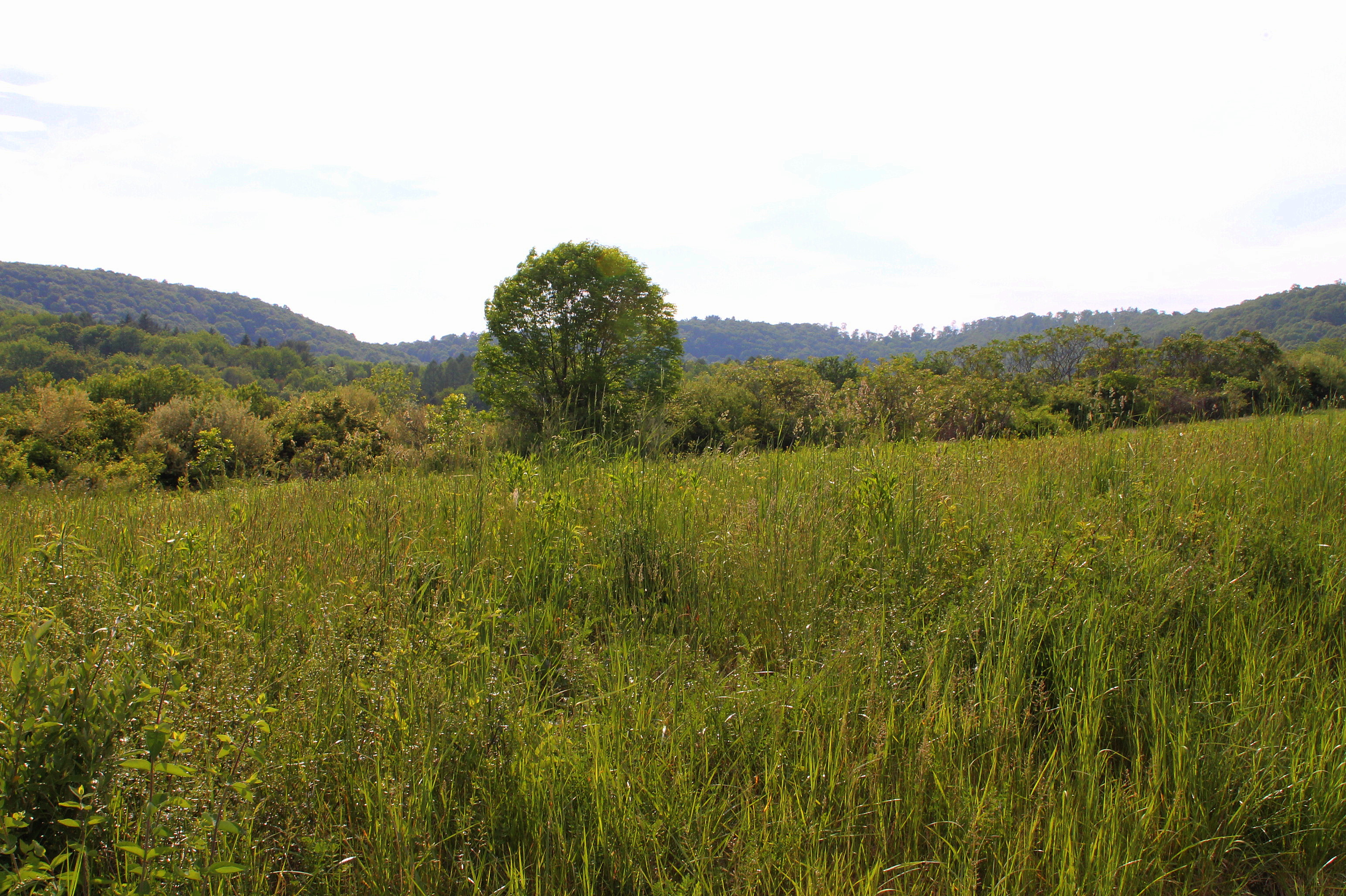 Fields and hills in Pennsylvania State Game Lands Number 226